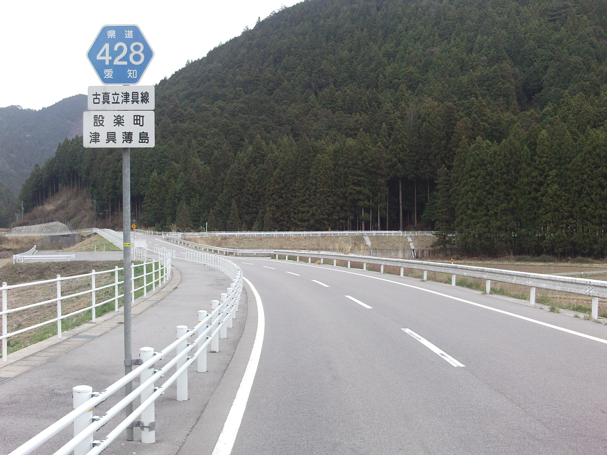 The Aichi Prefectural Road Route 428 in Tsugu Susukijima, Shitara Town